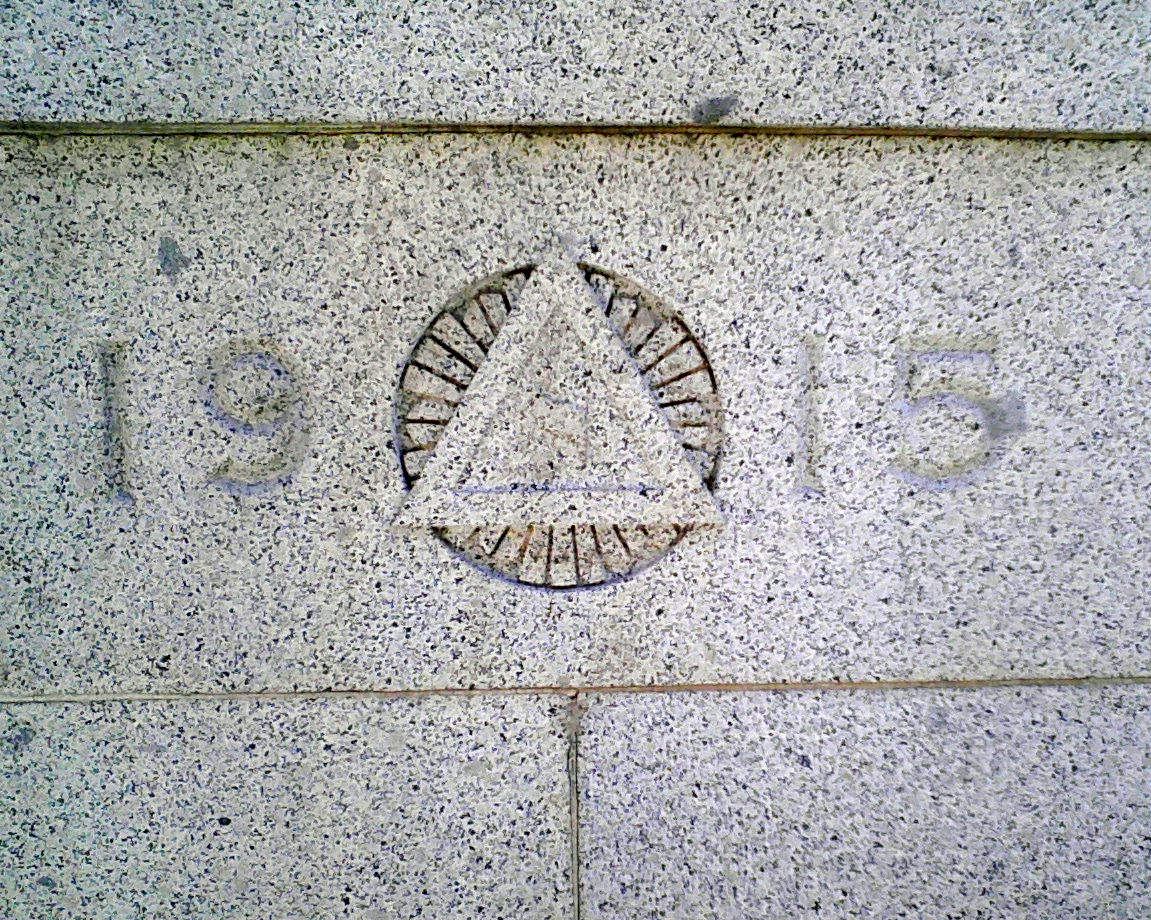 Cornerstone of Ming Opera House Consistory Shrine (15 North Jackson) reflecting 1915 remodel and expansion, showing Masonic symbolism. Building part of the Helena Historic District